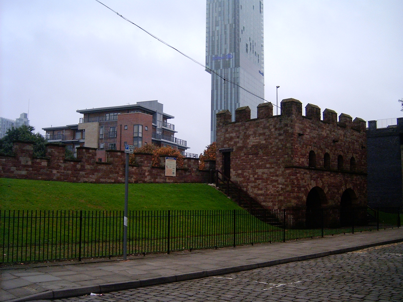 Reconstructed Roman Fort in Manchester